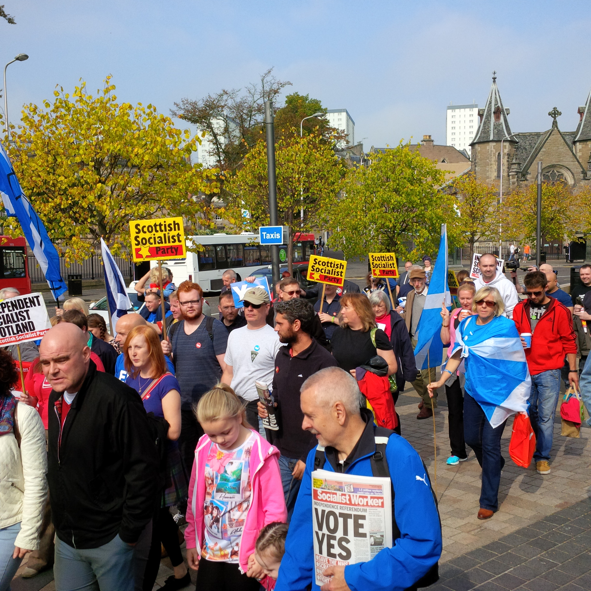 Pro-independence demonstrators at rally in Dundee